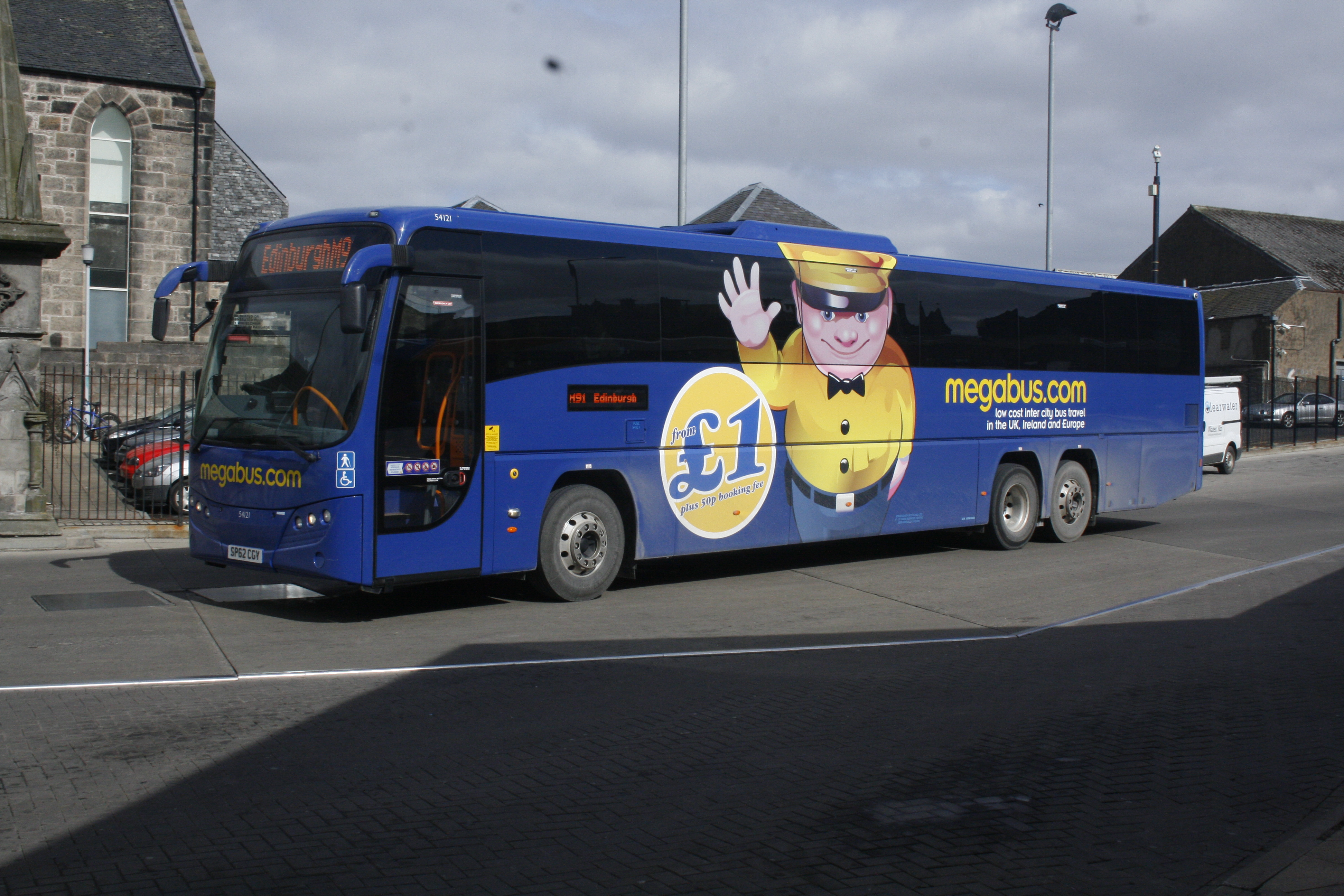 SP62 CGY, a Megabus Volvo B13RT with Plaxton Panther 2 bodywork, rolls into Dunfermline bus station with the M91 to Edinburgh.